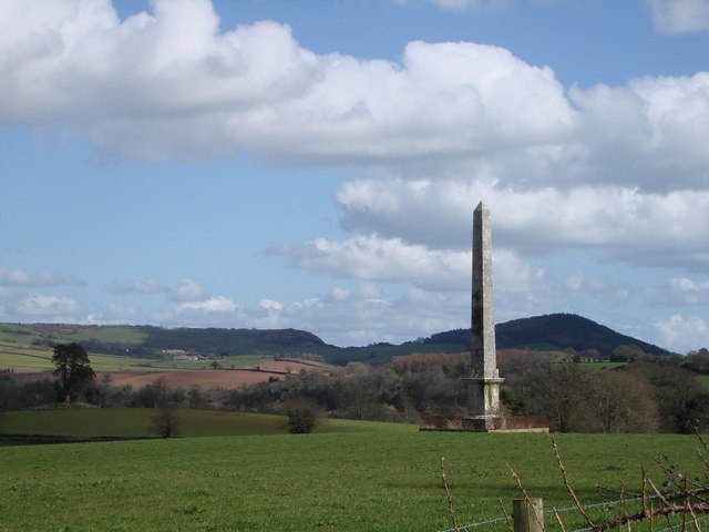 Obelisk, near Bicton Park The vertical stone column is always arresting, whether in Egypt, Paris, Rome, London or East Budleigh. However, though it is a forceful feature in cities, it is more particularly so when it is a contrast to the myriad curves and undulations of natural scenery.